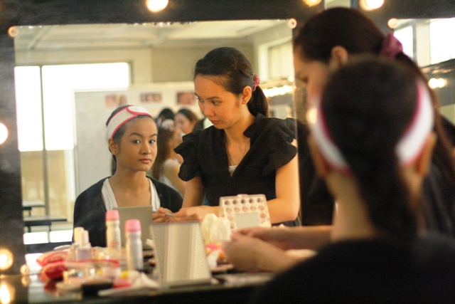 Fot Cosmetics article